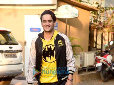 Photos: Celebs attend Ekta Kapoor’s son Ravie Kapoor birthday party